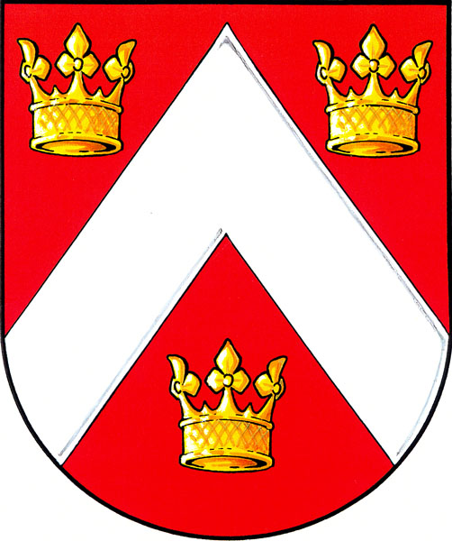 Municipal coat of arms of Otovice village, Karlovy Vary District, Czech Republic.